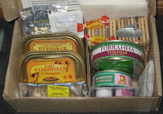 Food ratio of Soviet Navy officers